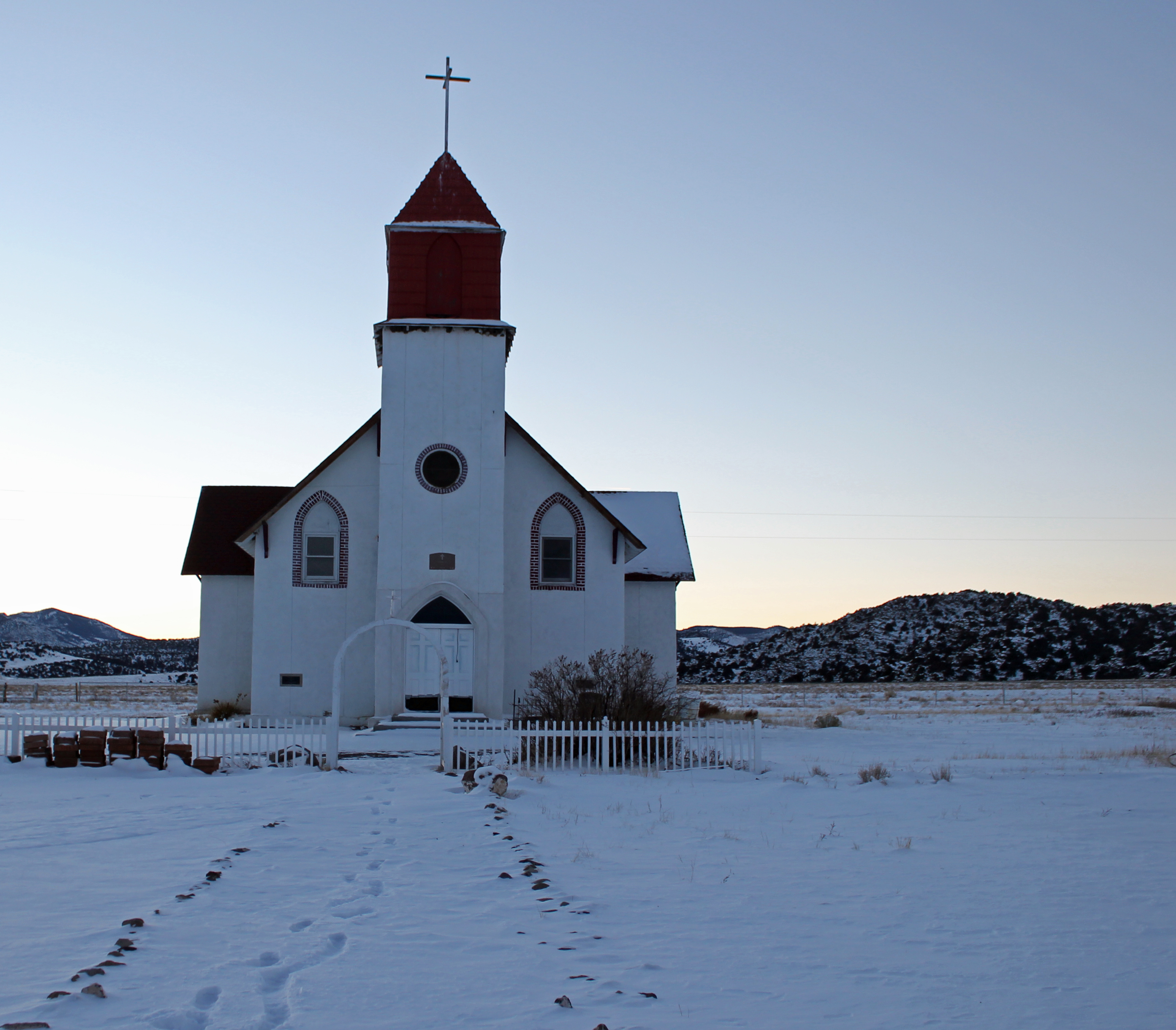 The Capilla de San Juan Bautista, located near La Garita, Colorado, in Saguache County. The property is listed on the National Register of Historic Places.